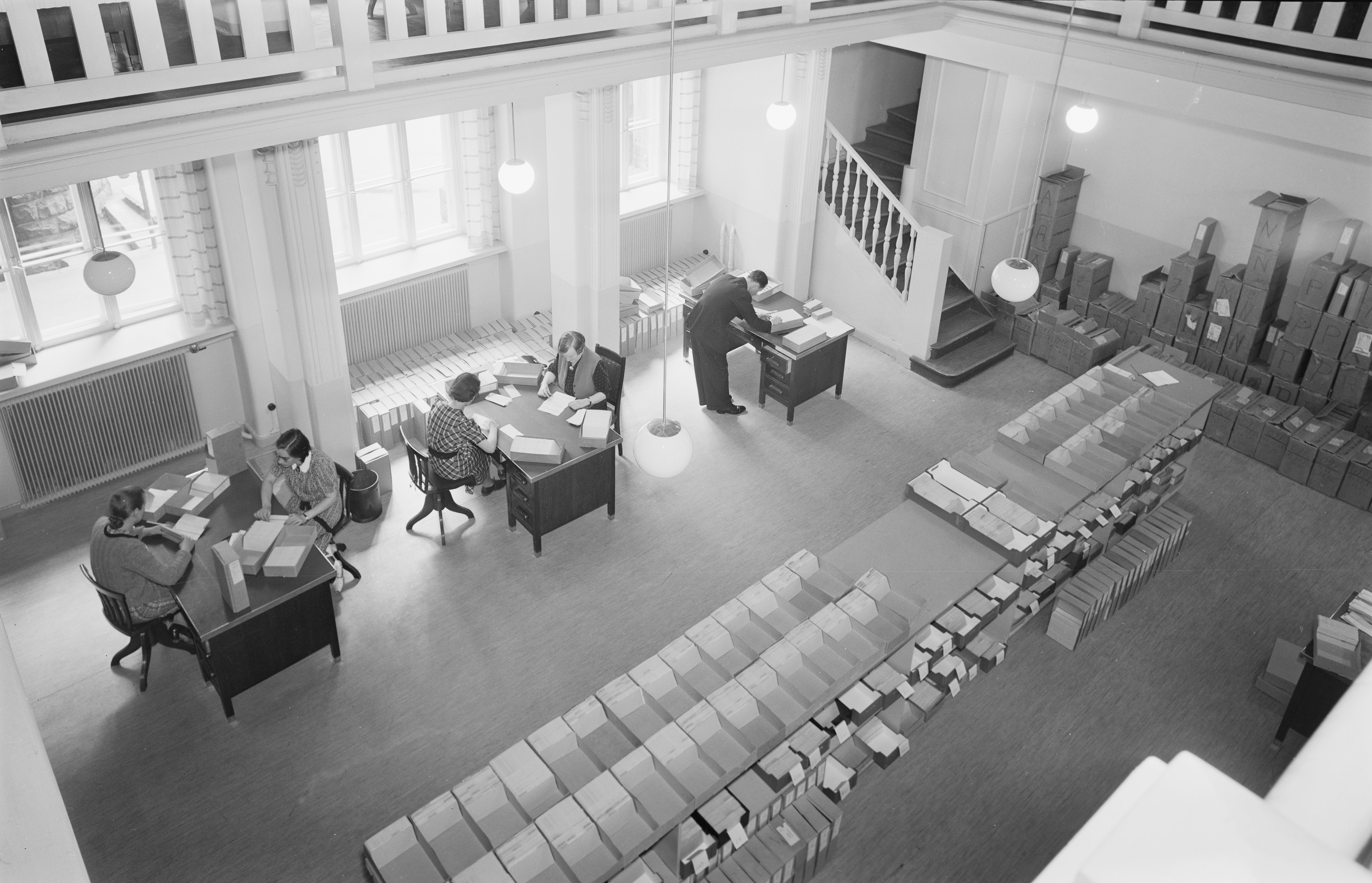 The clerks of the Helsinki office of The Social Insurance Institution of Finland (Kela) at work in the year 1941